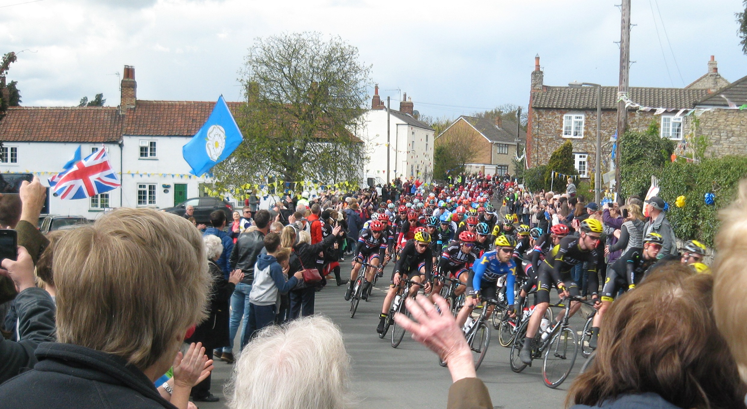 Cycle race